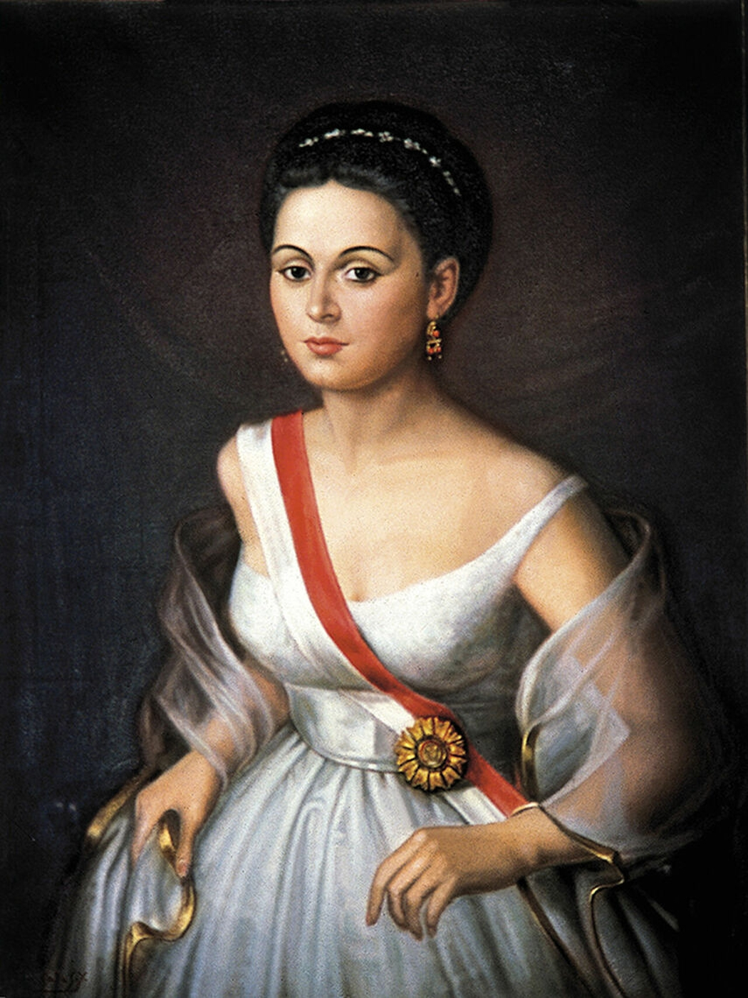 Portrait of Manuela Sáenz, copy of a watercolor.